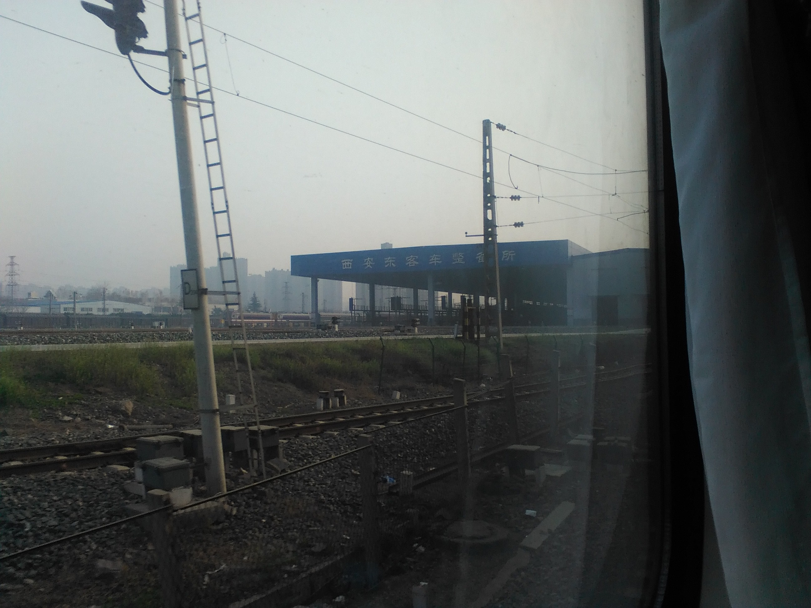 Coach Depot of Xi'an East Railway Station 中文（中国大陆）: 西安东客车整备所